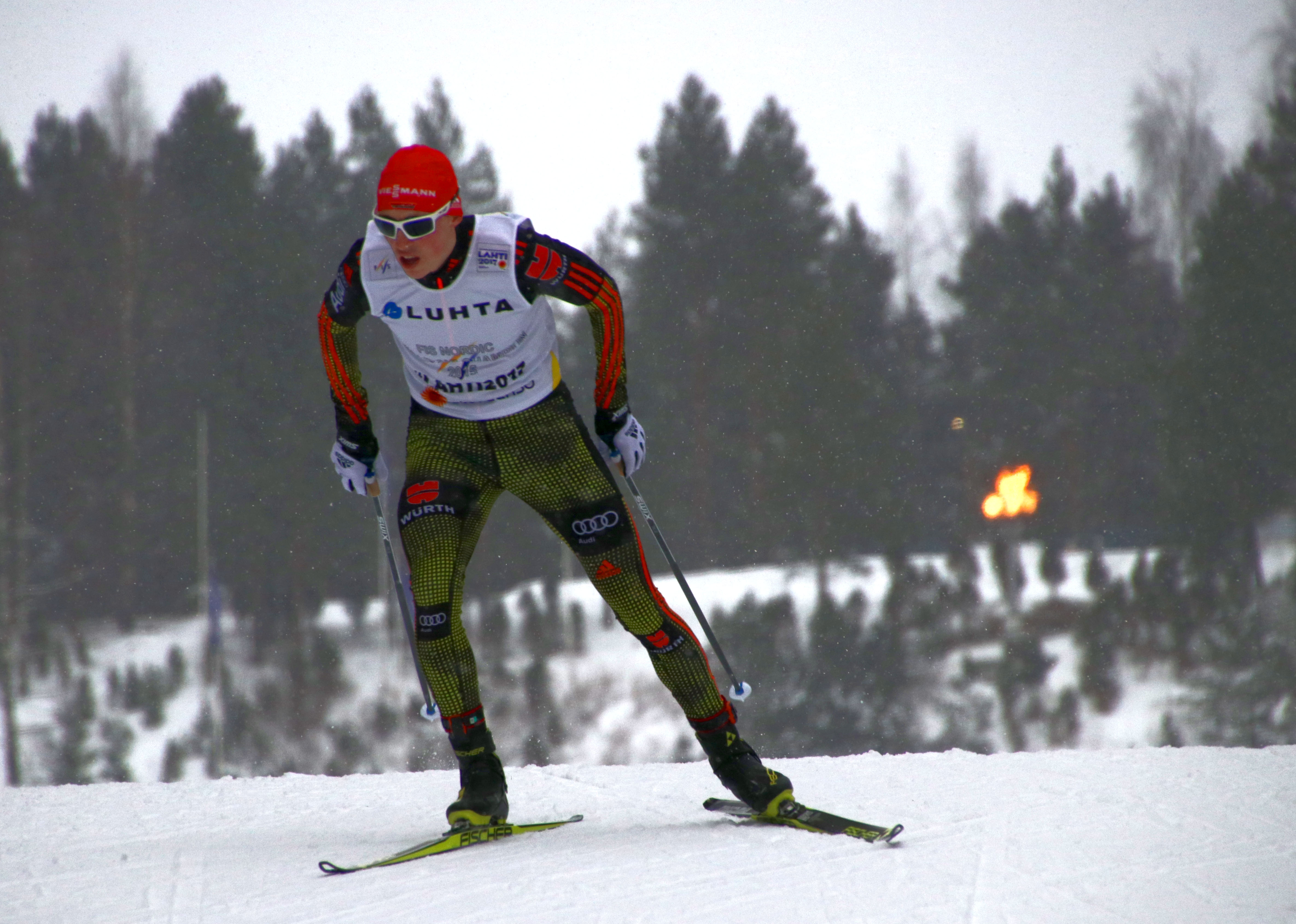 Lahti. At the Nordic Combined World Championships.